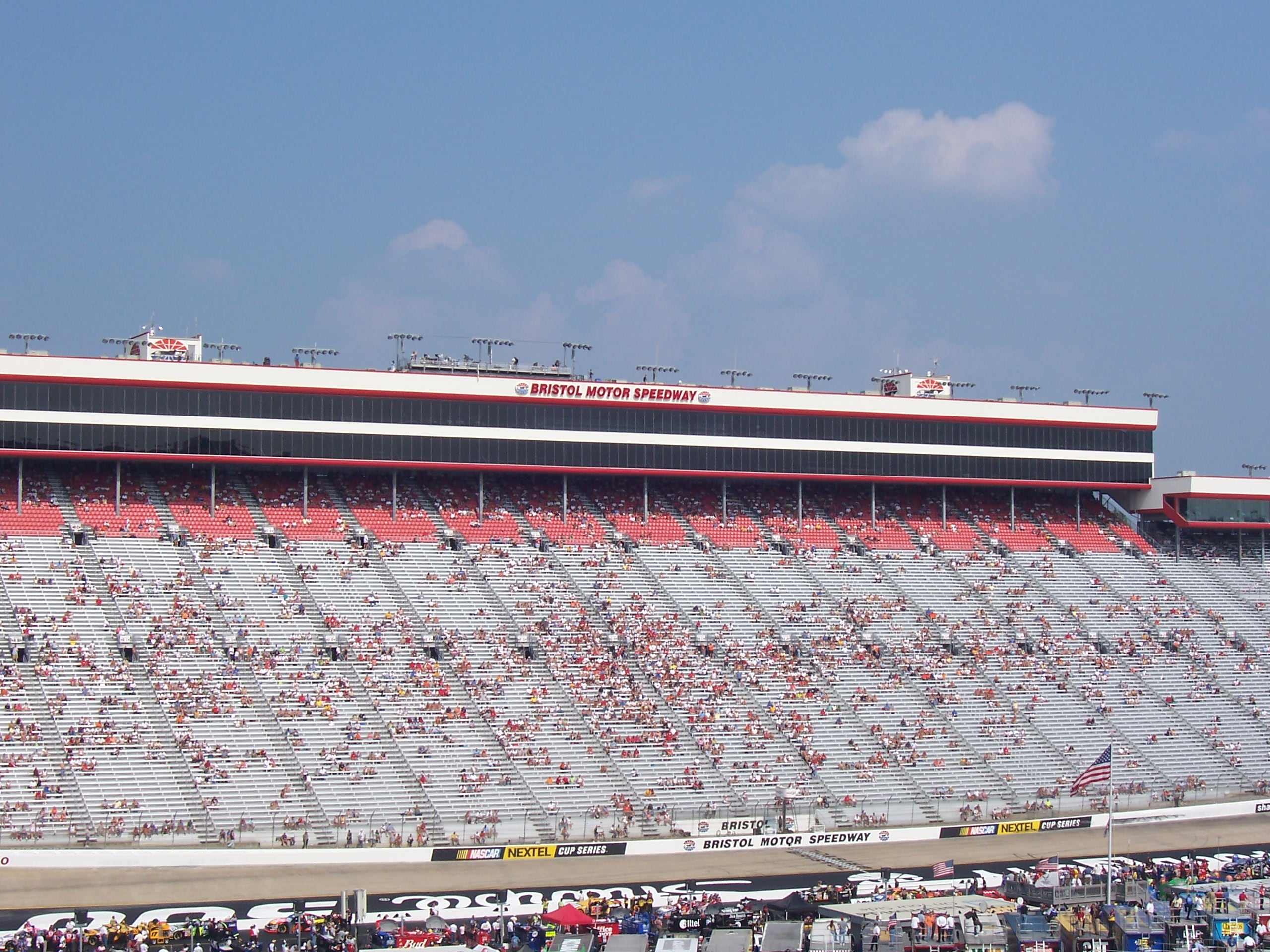 Picture of the frontstrech grandstand at Bristol Motor Speedway on August 25, 2006 before the Food City 250. Picture was taken by myself with a KODAK Easyshare CX7530.